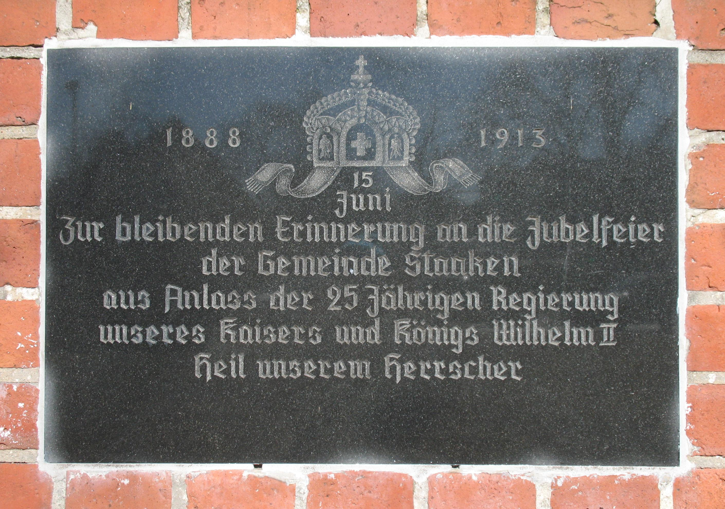 Memorial tablet for Wilhelm II in Berlin-Staaken, Germany.